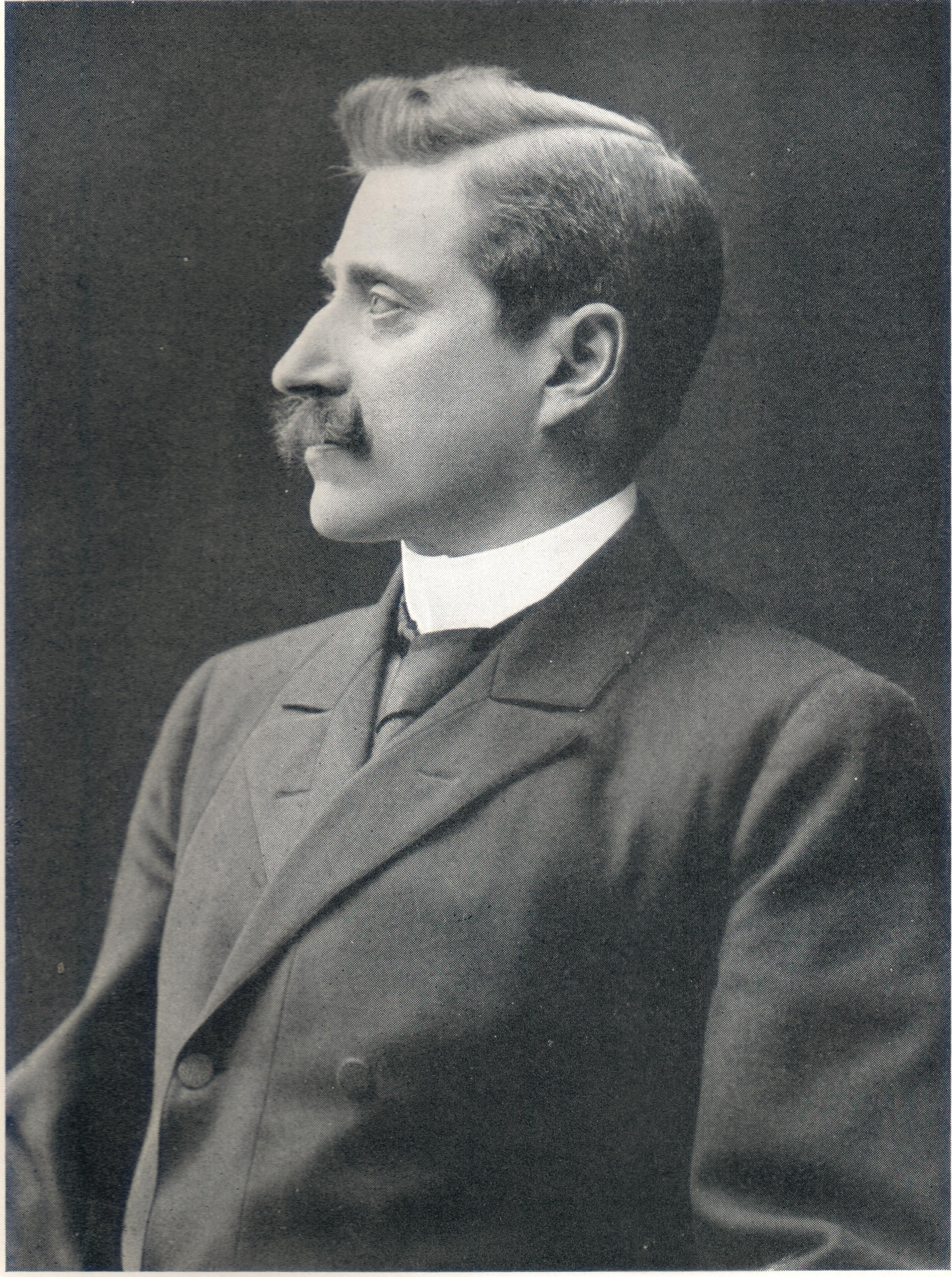 Author Verner von Heidenstam (1859-1940) in the 1890s